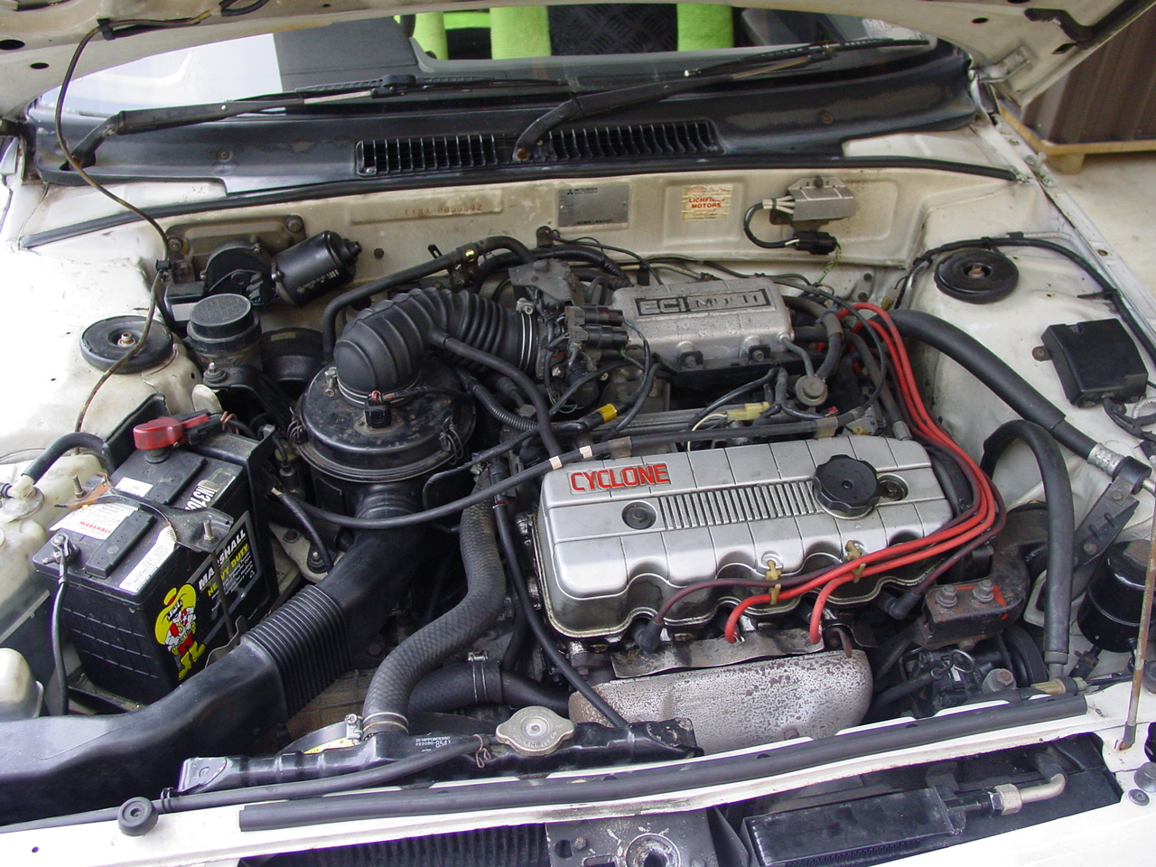 Mitsubishi 4G32 EFI engine, in a second generation 1986 Mitsubishi Mirage CX-Si (Japanese import to New Zealand)